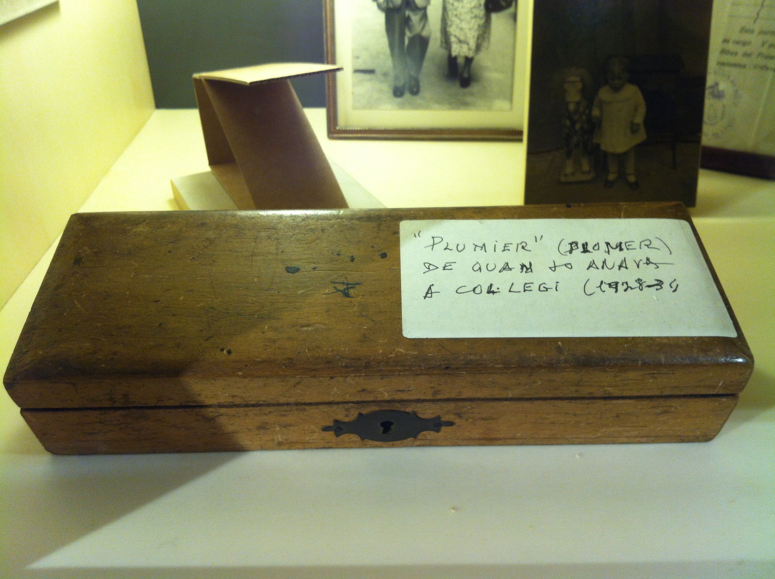 Llegir com viure Joan Triadú exhibit at Palau Robert in Barcelona (2013)